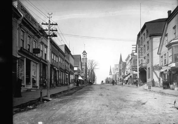 Main street of Woodstock, New Brunswick.